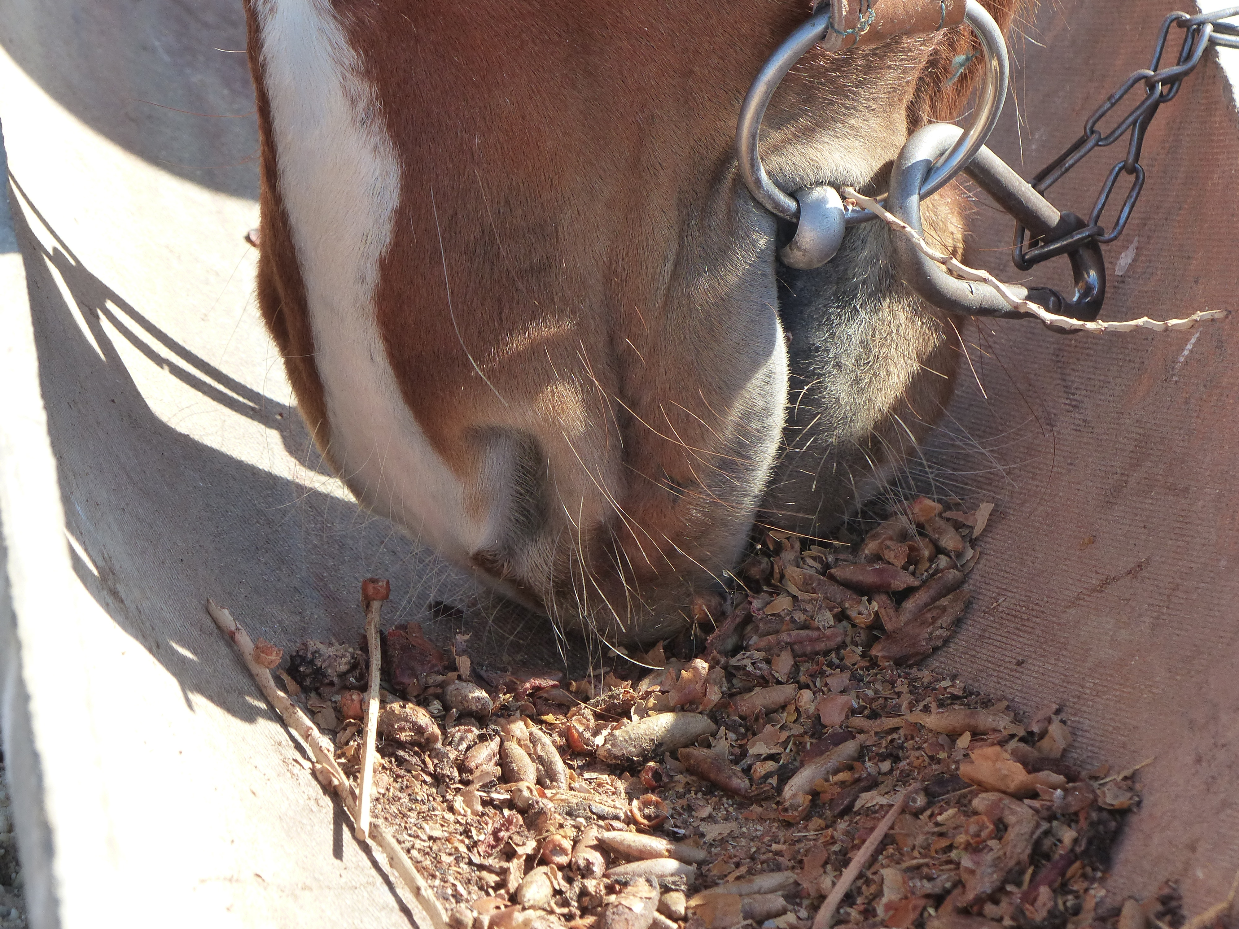 Arab-Barb horse eating dried dates near Tozeur, Tunisia